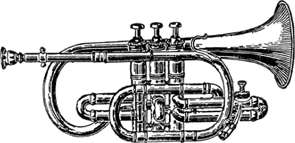 A drawing of a cornet from Webster's Dictionary 1911.